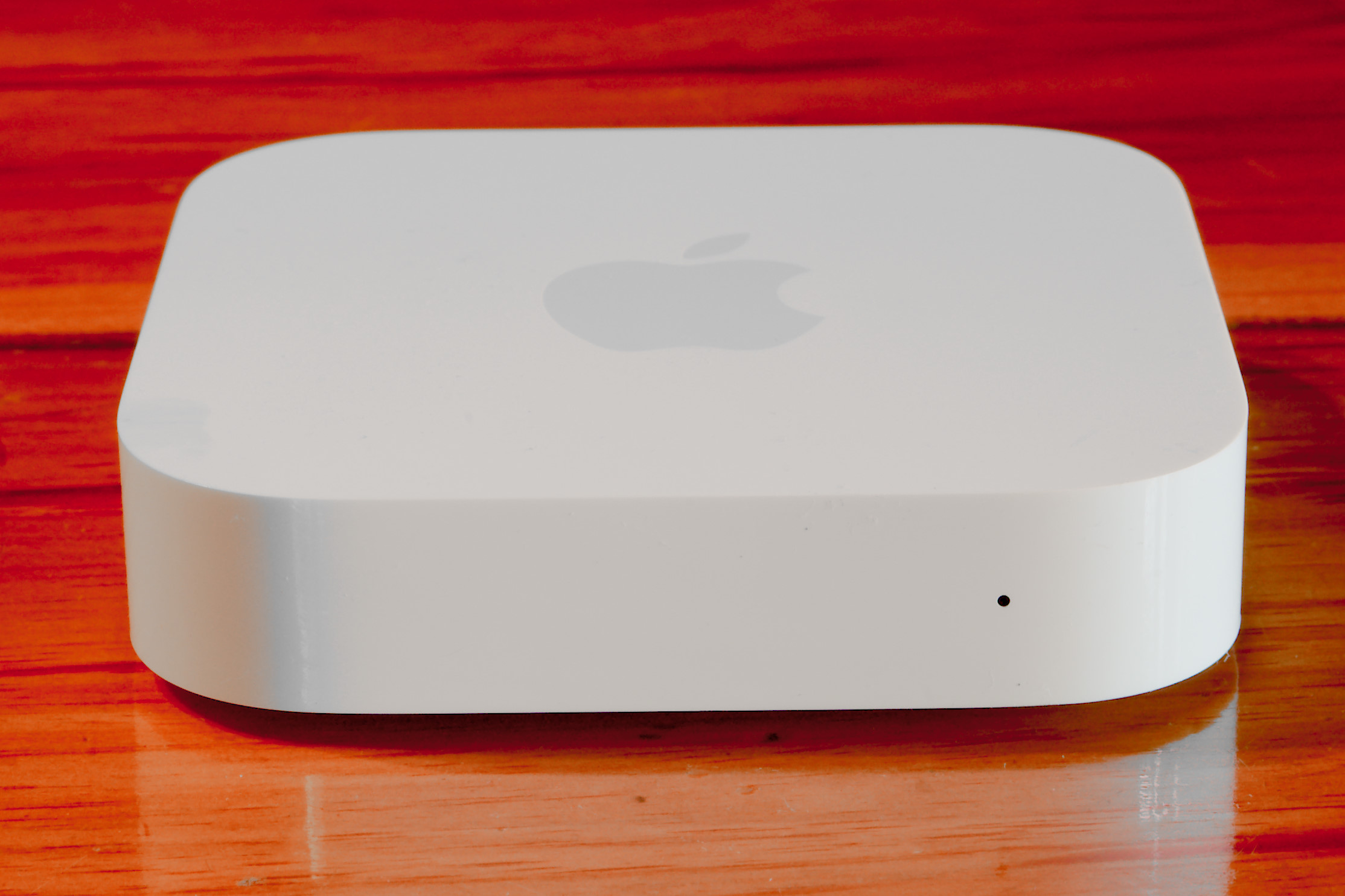 Apple's Airport Express wifi base station, 2012 model